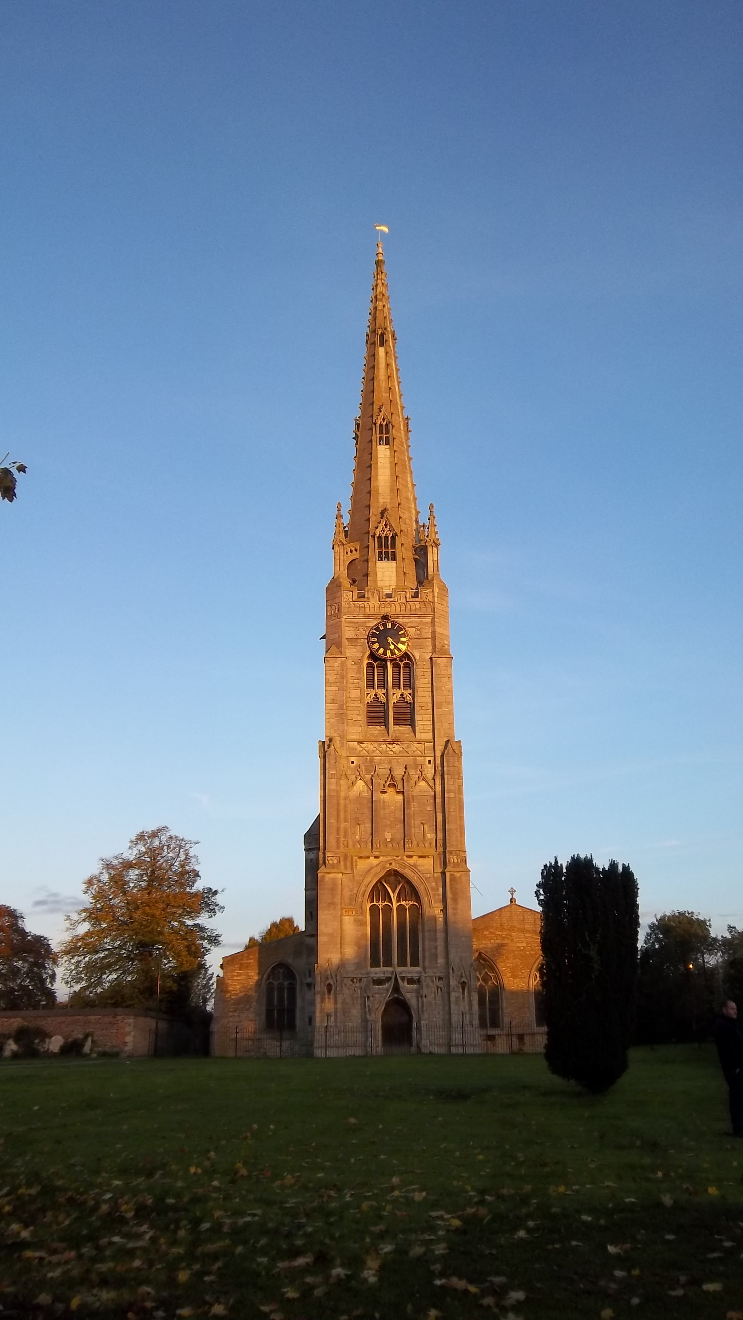 St. Marys spire